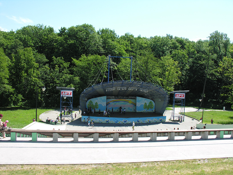 Estrade in the central park of Kalinigrad